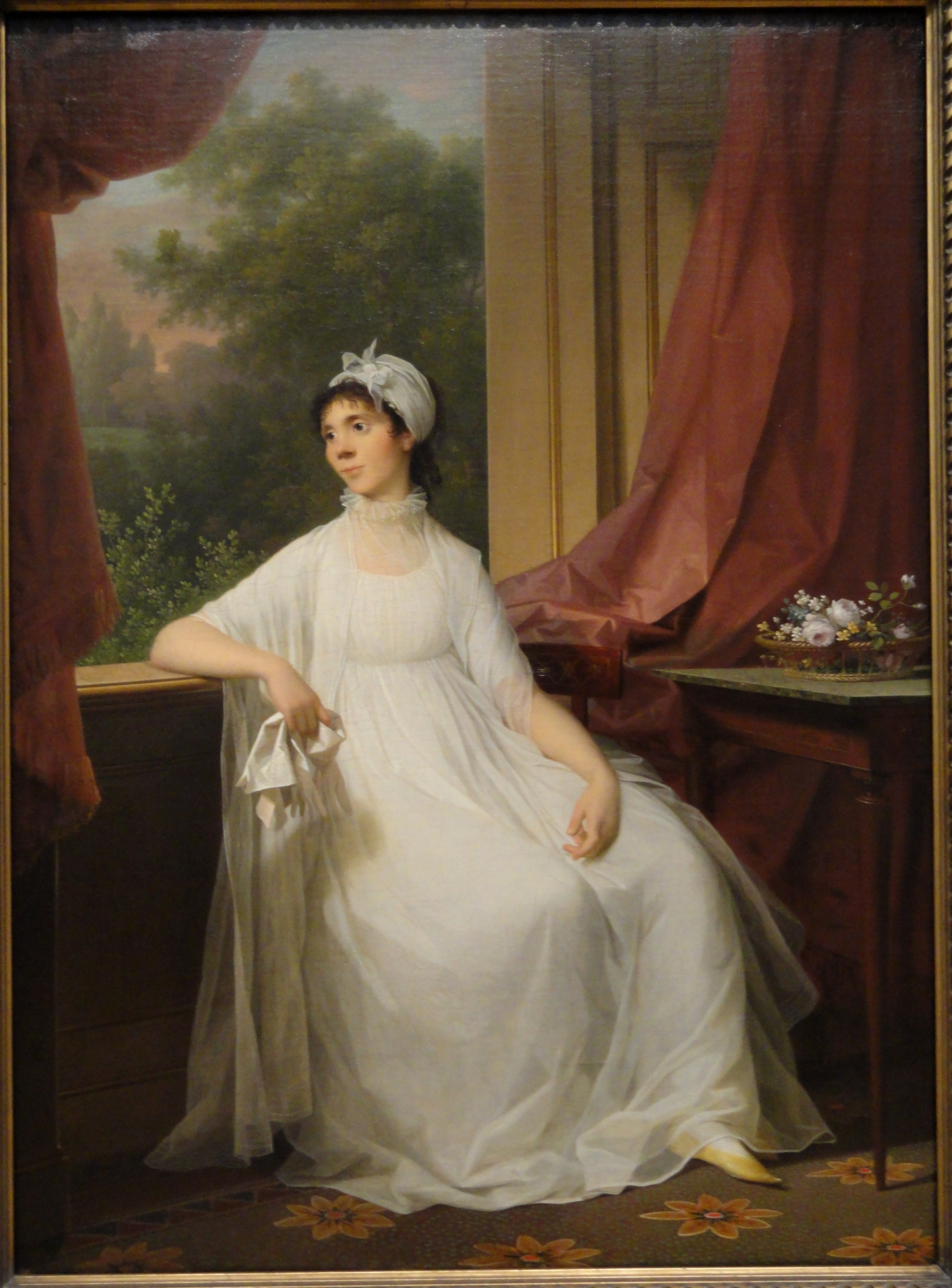 Exhibit in the Statens Museum for Kunst, Copenhagen, Denmark. Photography was permitted without restriction of all artworks old enough to be in the public domain. This artwork is in the public domain because its creator died more than 70 years ago.